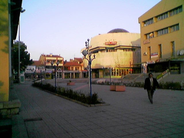 View of Erzincan, Turkey.